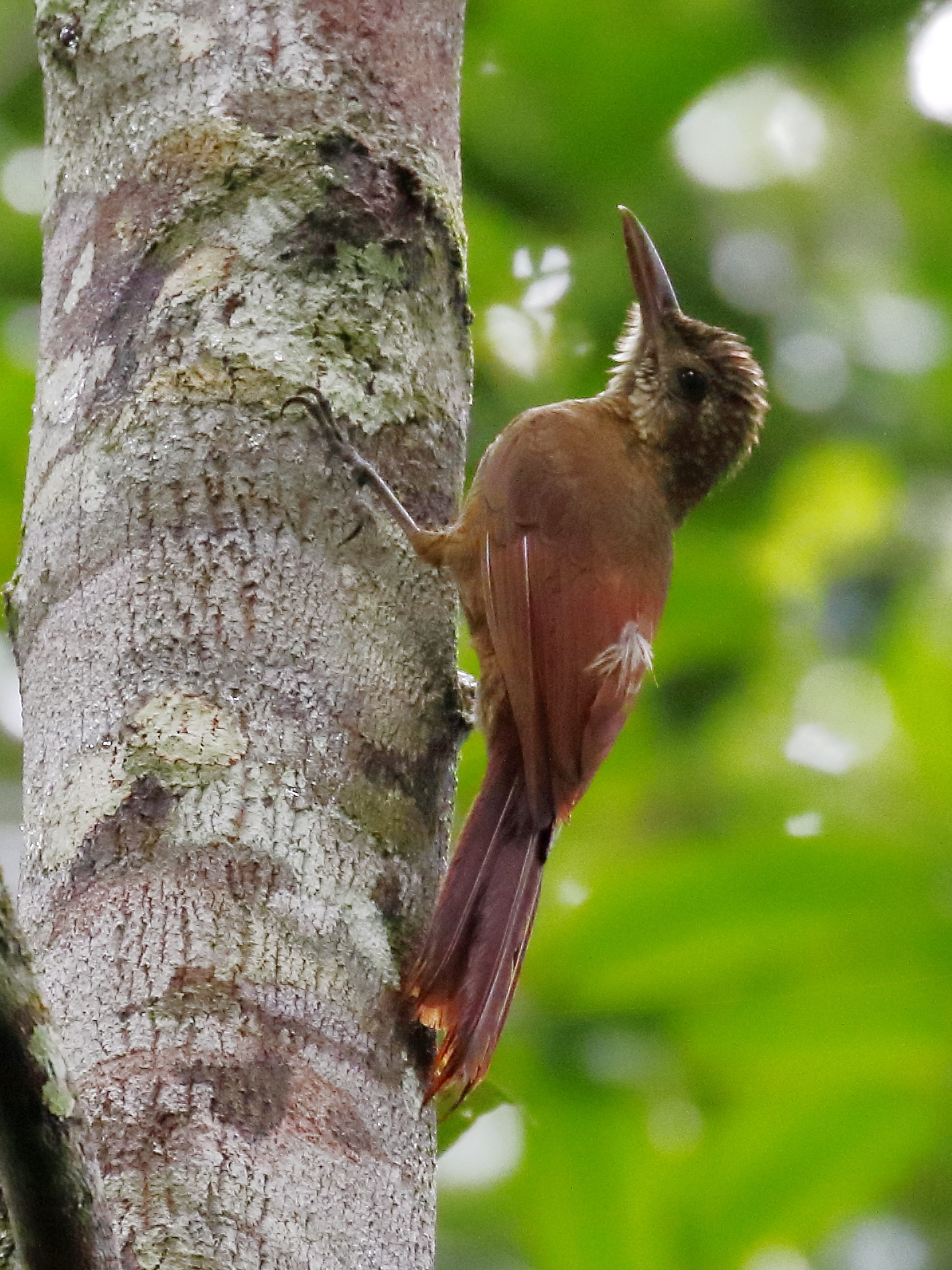 Amazonian barred woodcreeper, Pte. Figueiredo, Amazonas, Brazil